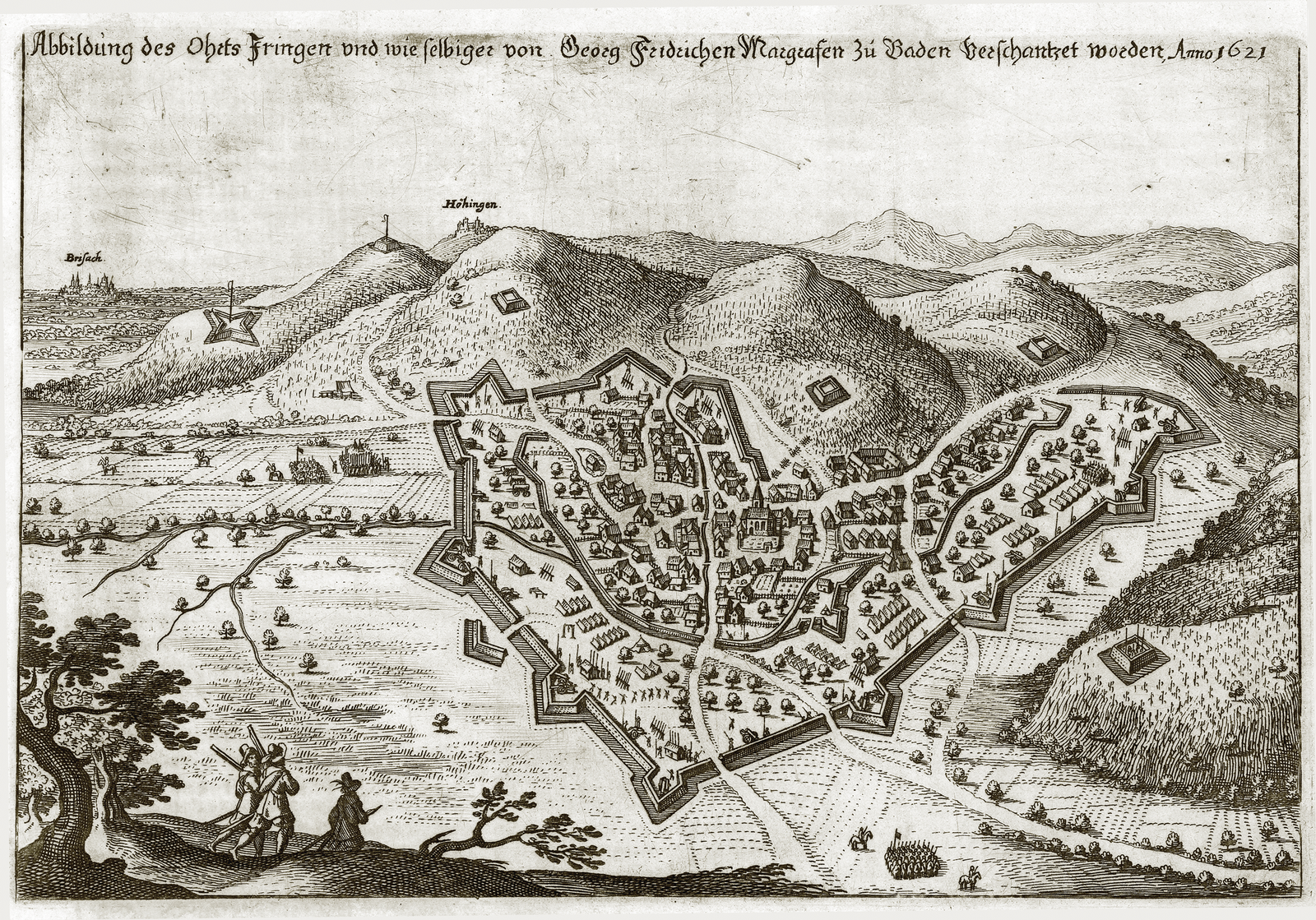 Ihringen (Southern Germany)1621; Entrenchments by Margrave Georg Friedrich of Baden-Durlach; copper engraving